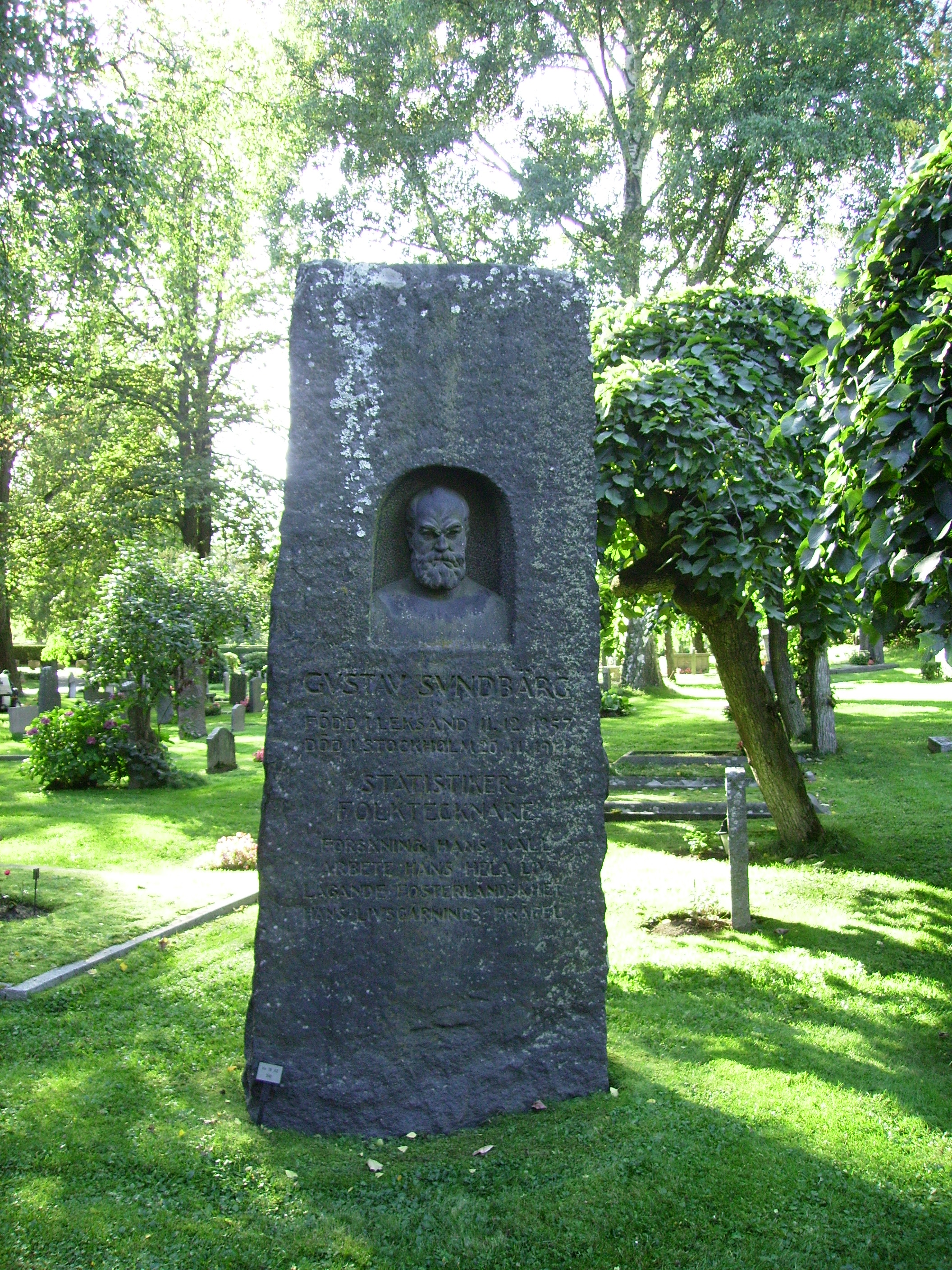 Picture of Gustav Sundbärg's grave at Norra begravningsplatsen in Stockholm